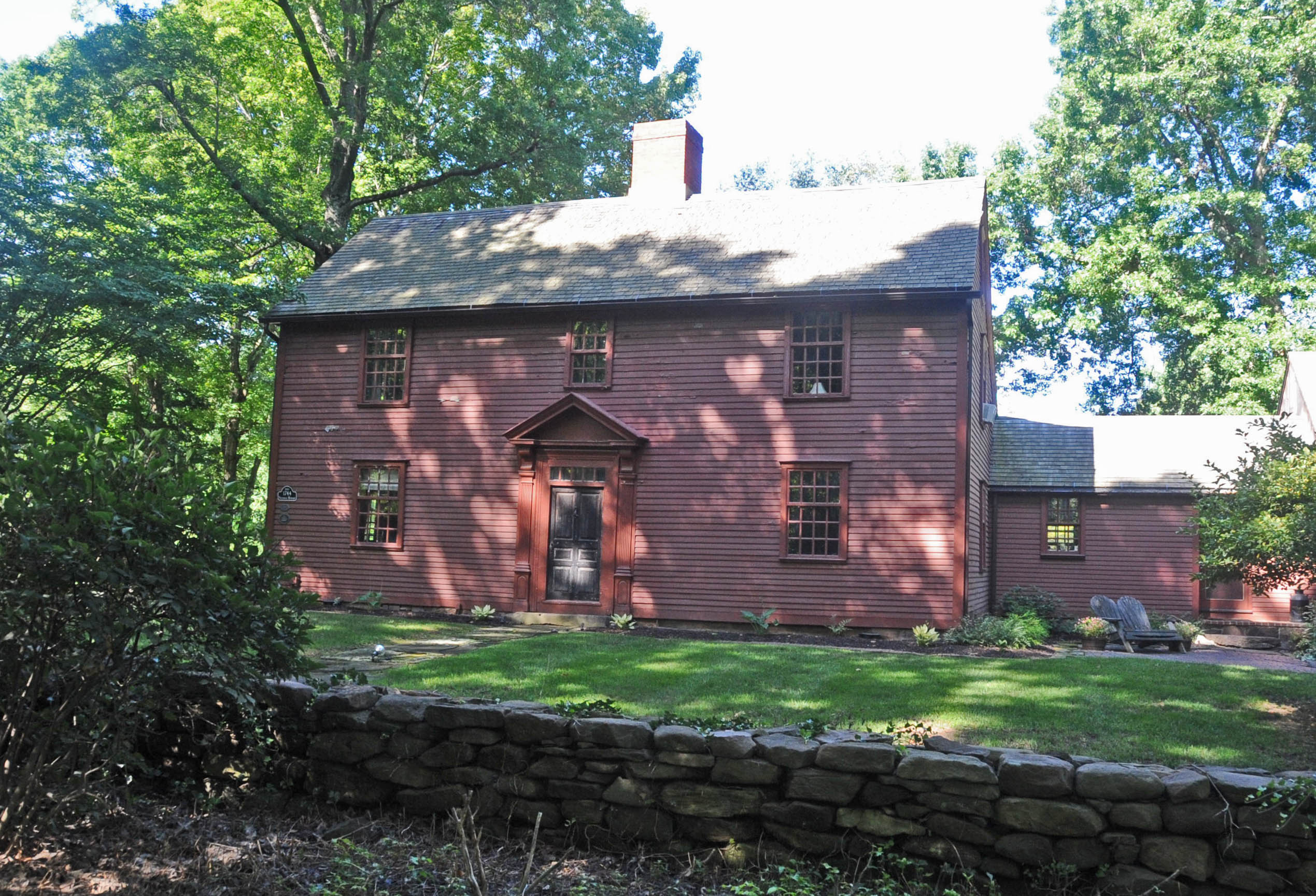 The Nehemiah Hubbard House at the corner of Laurel Grove and Wadsworth Street, Middletown, Connecticut. Built in 1745. Hubbard was a prominent banker and merchant of the late 18th Century. It is now part of the Wadsworth Estate. The house is on the National Register of Historic Places as part of the Wadsworth Estate Historic District, rather than in its own right.